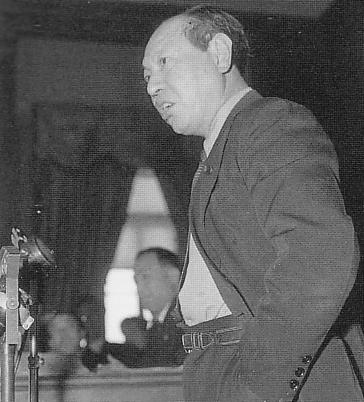 Summoning Tokuda as a sworn witness to the Diet